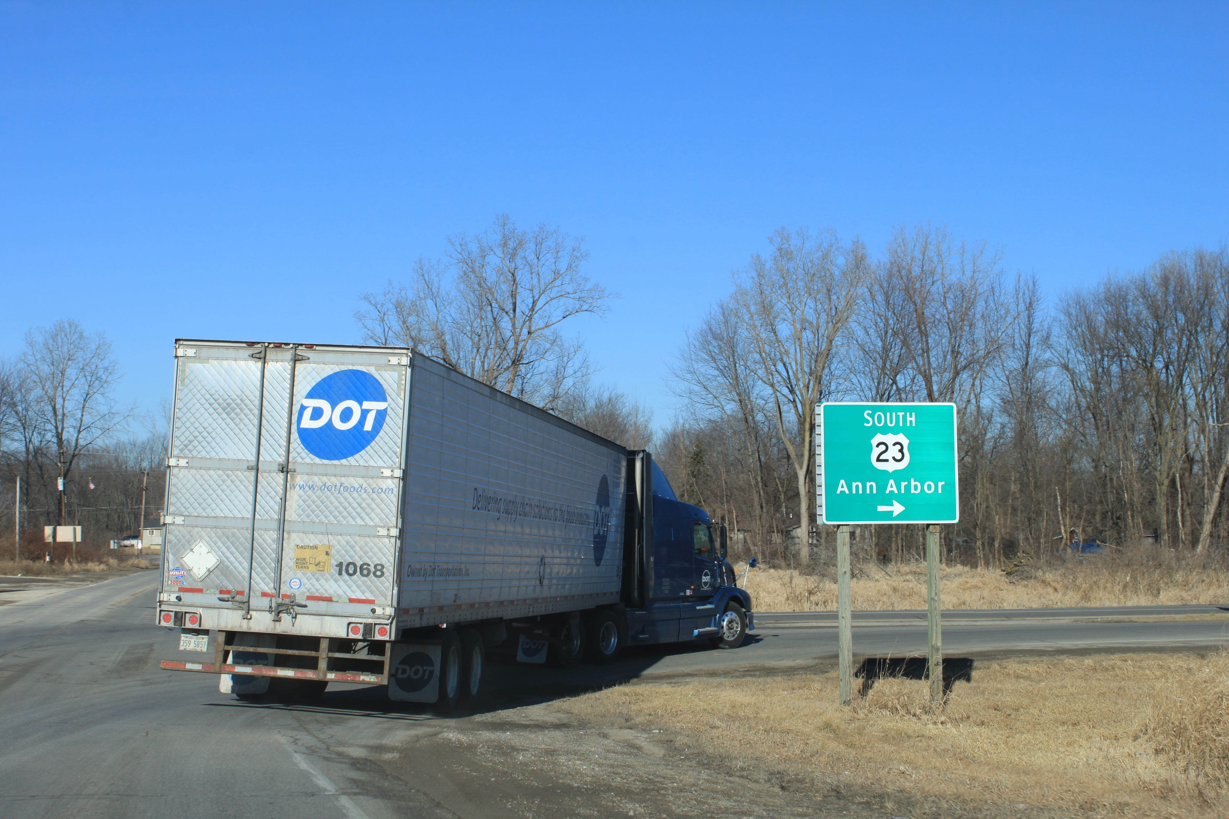 Dot Foods distribution truck, Six Mile Road at US 23, Whitmore Lake, Michigan.